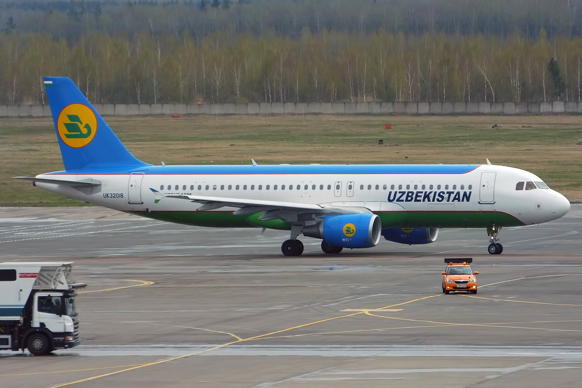 Uzbekistan Airways, UK32018, Airbus A320-214